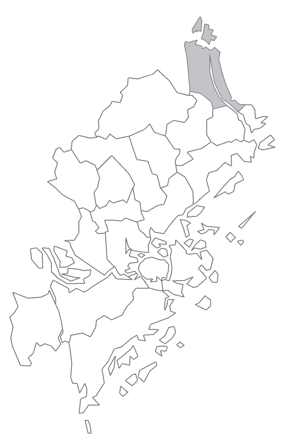 Map describing the location of Väddö and Häverö Ship District in Stockholm County, Sweden.